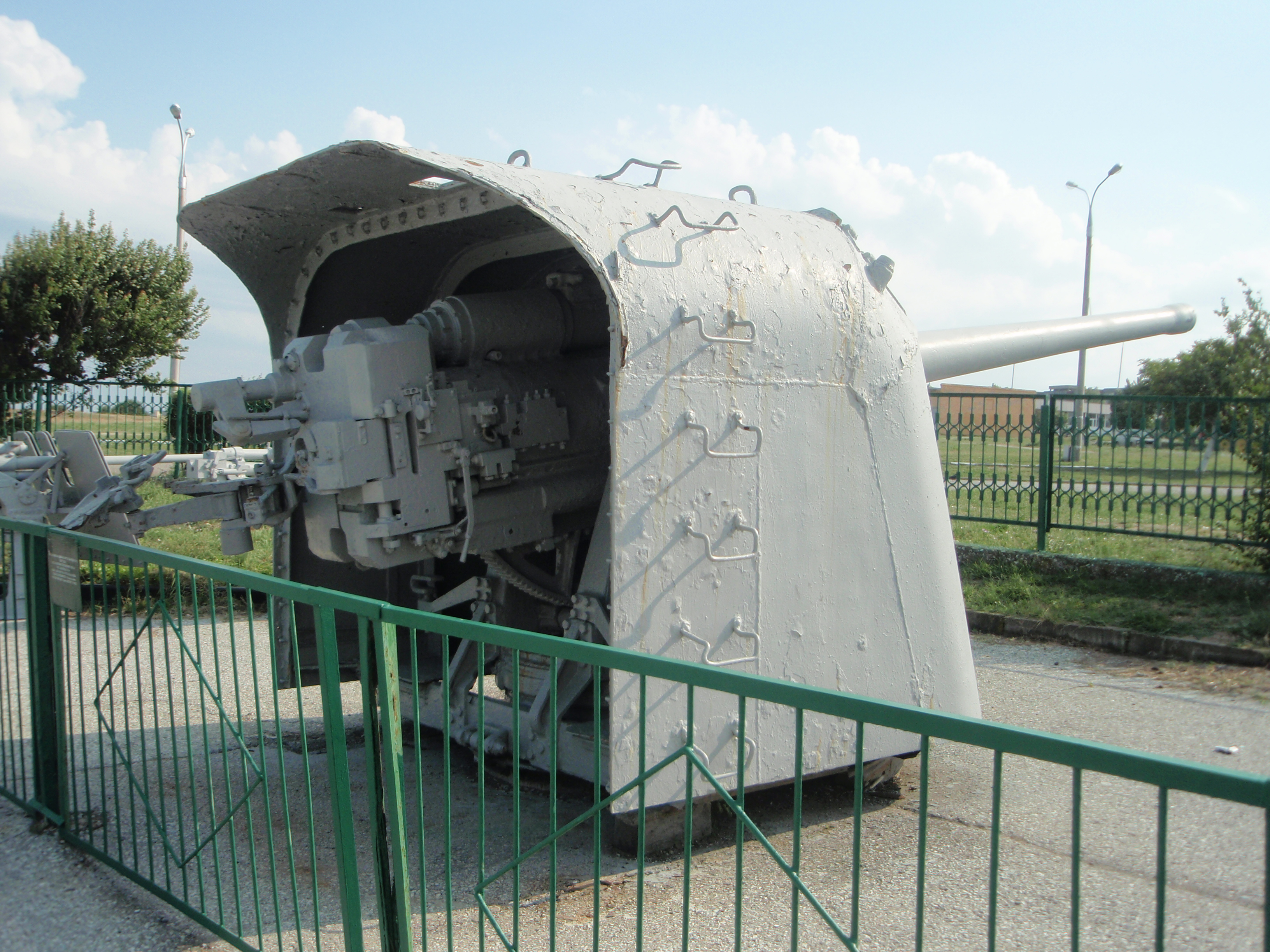 Soviet 130-mm naval guns (B-13)